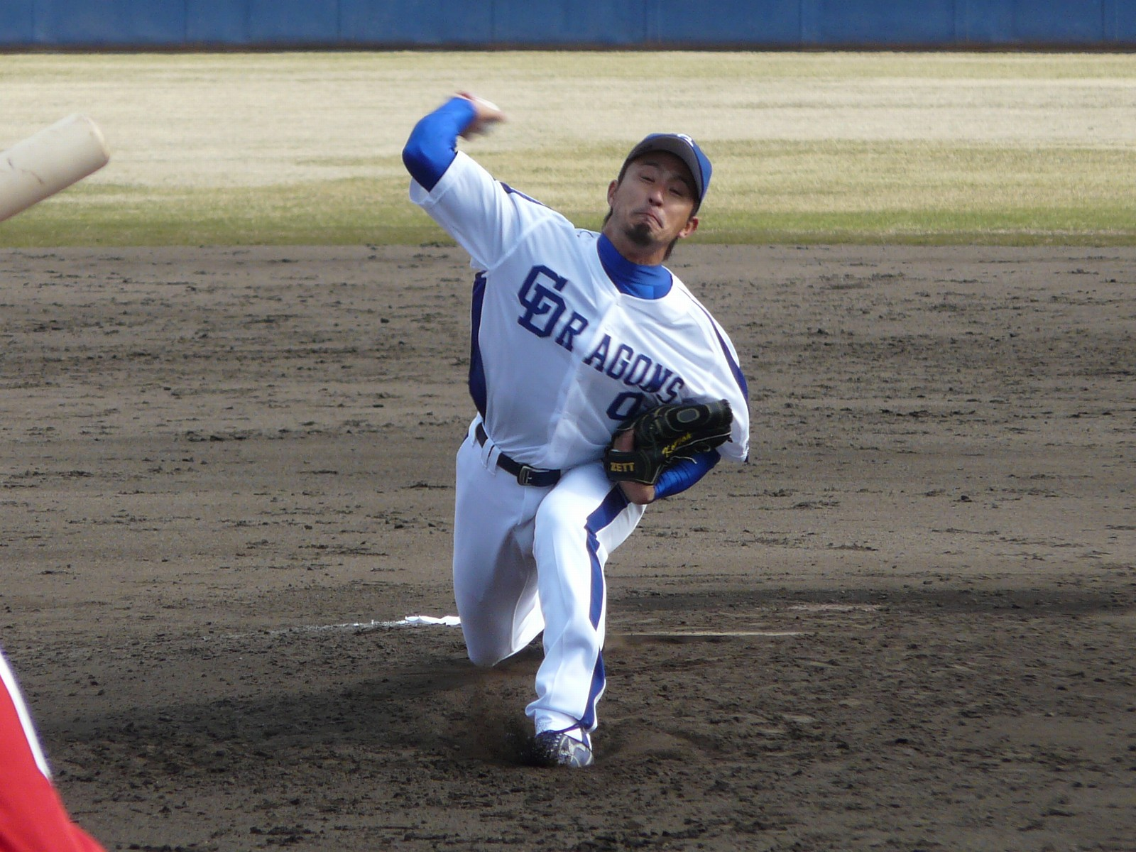 Chunichi Dragons/Hiroki Kongo